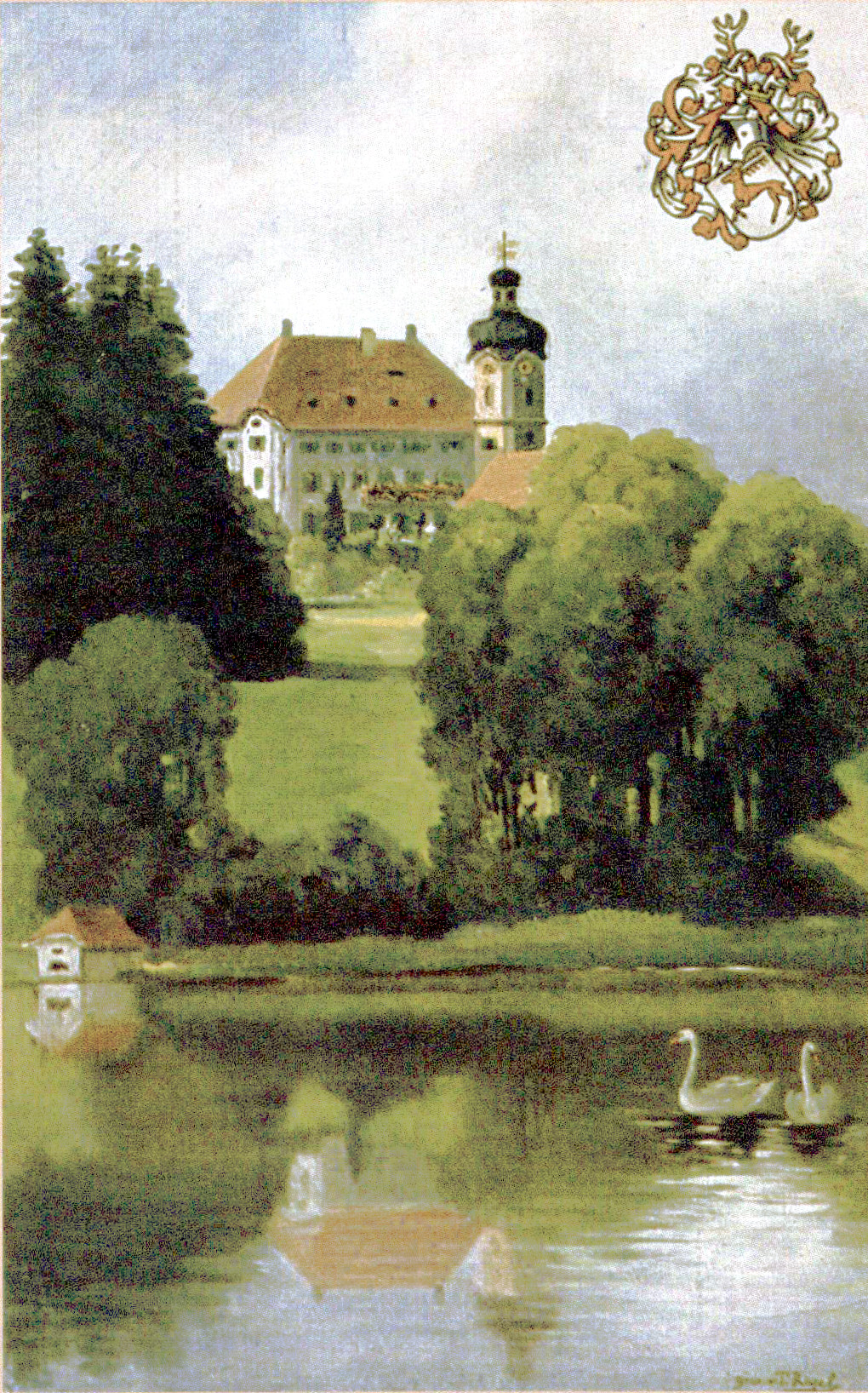 Hirschberg am Haarsee Mansion, Deutenhausen, Weilheim-Schongau county, Germany. As seen from the Haarsee, originally a postcard dated 1912